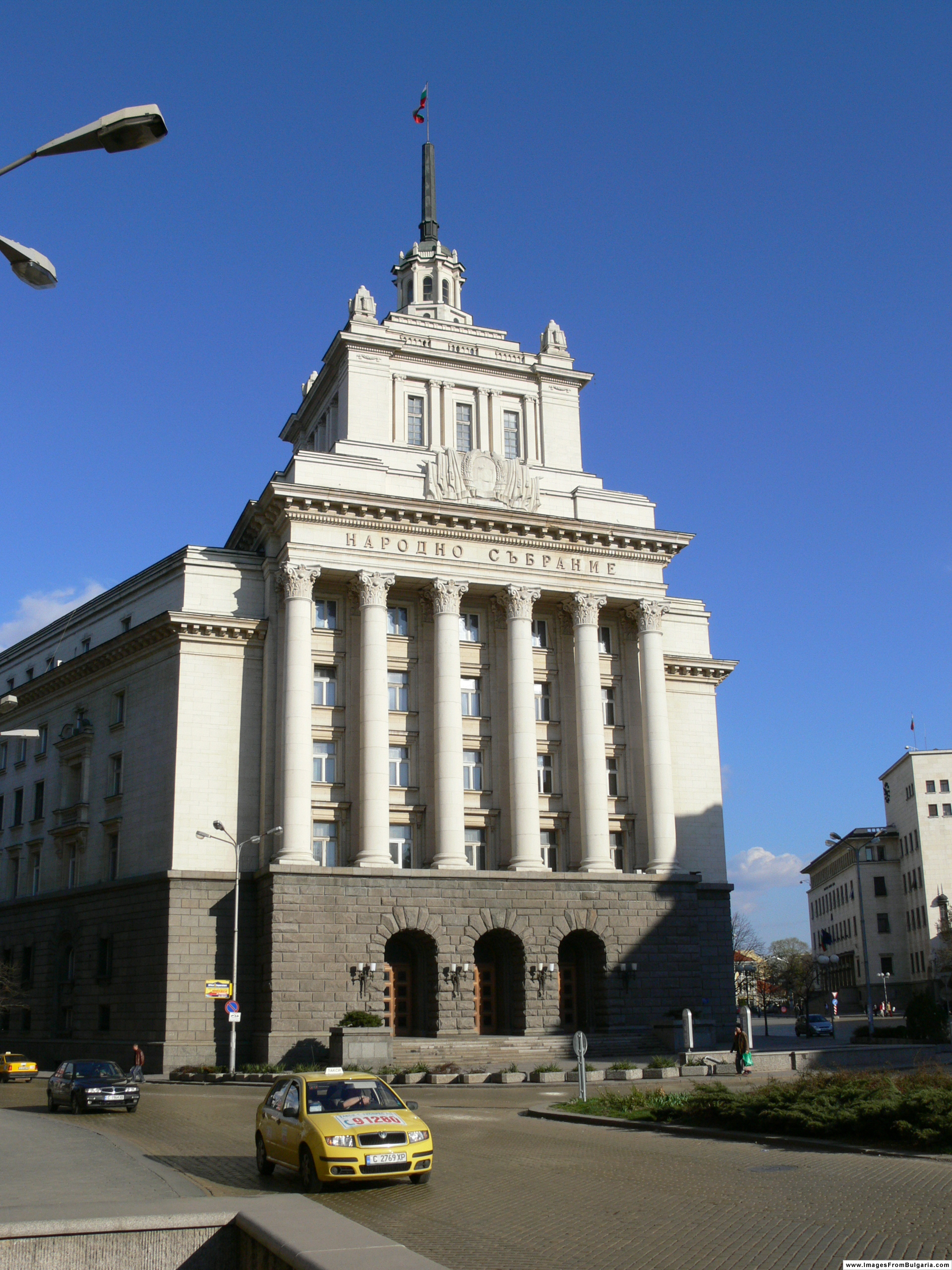 The former Communist Party House in downtown Sofia, Bulgaria